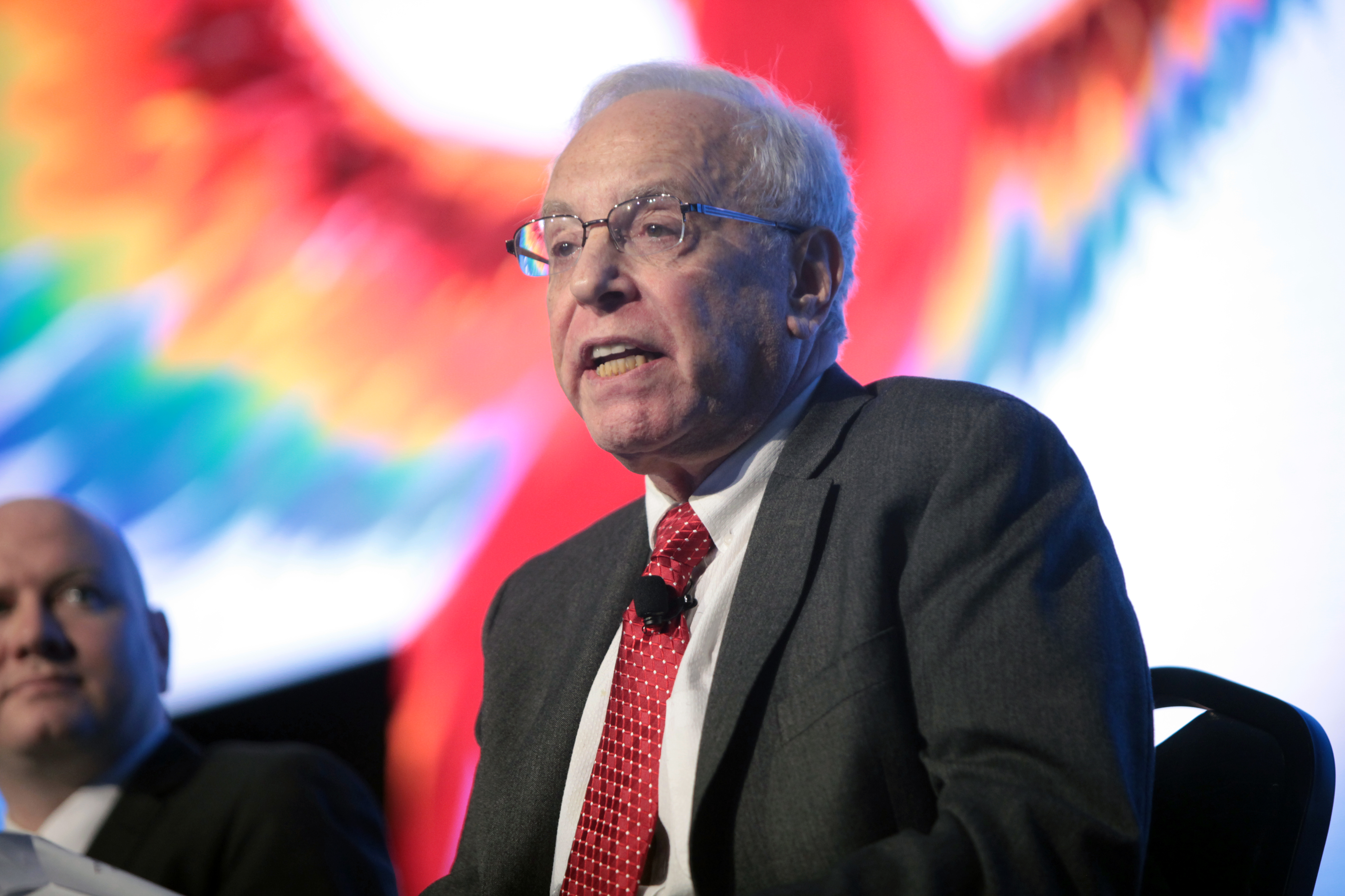 Gene Epstein speaking at the 2016 FreedomFest at Planet Hollywood in Las Vegas, Nevada.